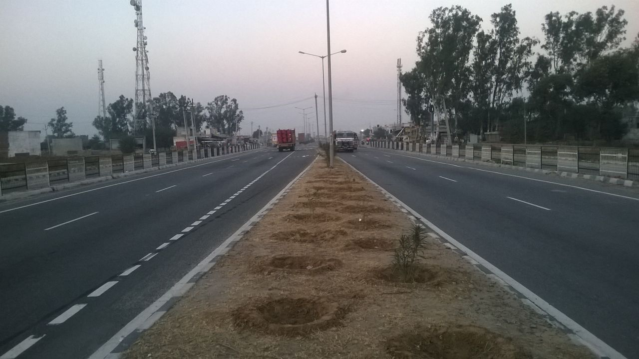 National Highway 71 Passing Through Machhrauli